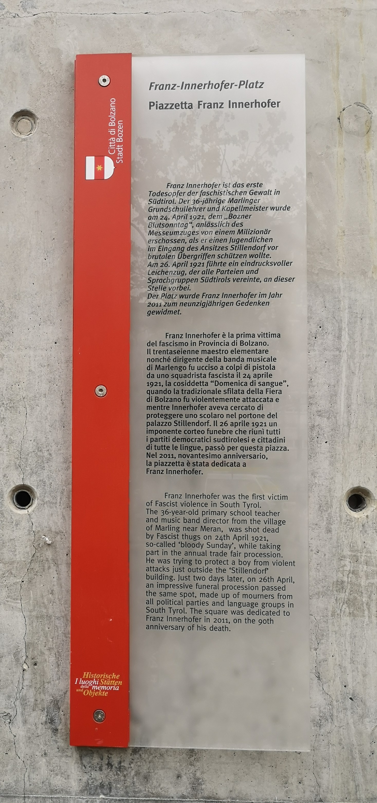 Trilingual signpost at the Franz-Innerhofer-Square in Bozen-Bolzano remembering the schoolteacher killed by fascist groups in 1921